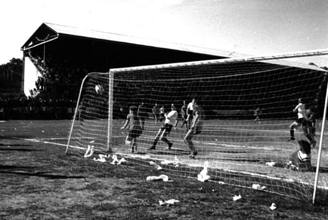 Spezia-Pistoiese 1985-86